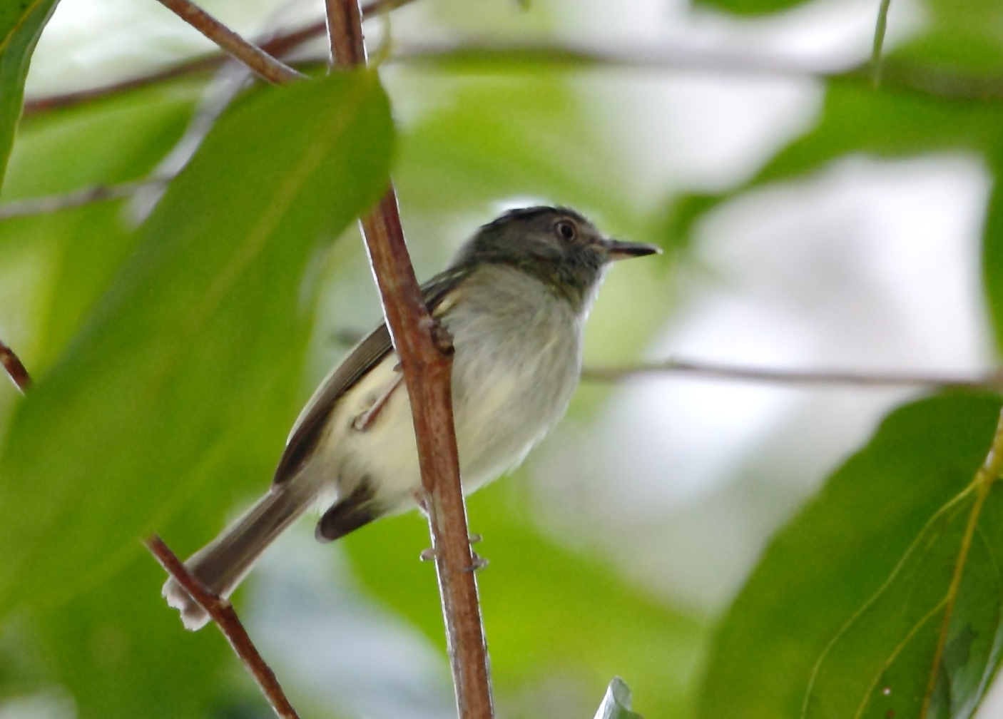 Double-banded pygmy-tyrant at Presidente Figueiredo, Amazonas, Brazil